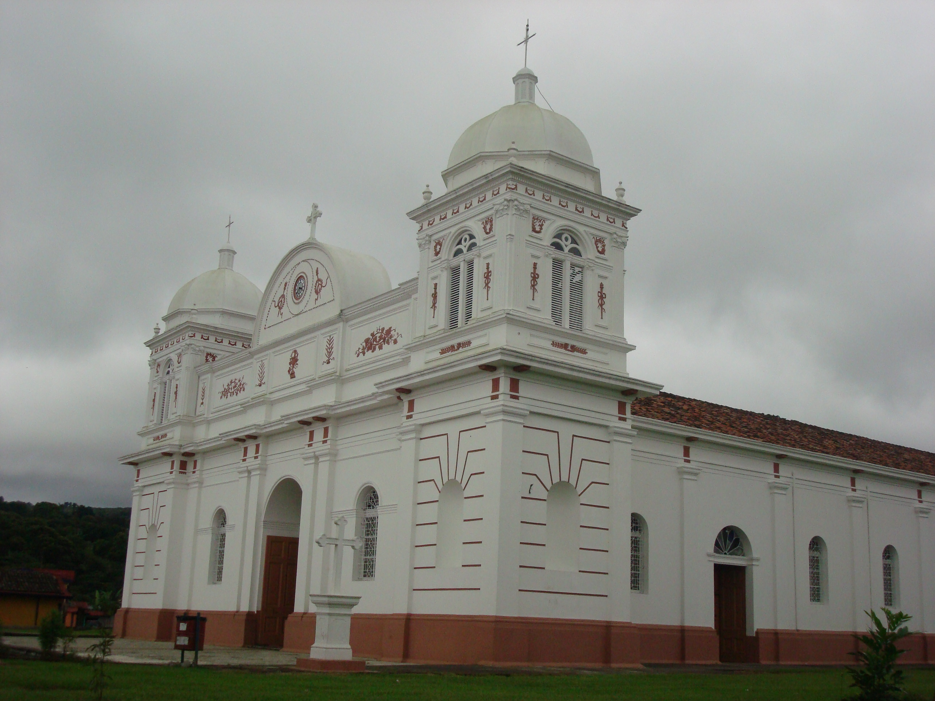 Church